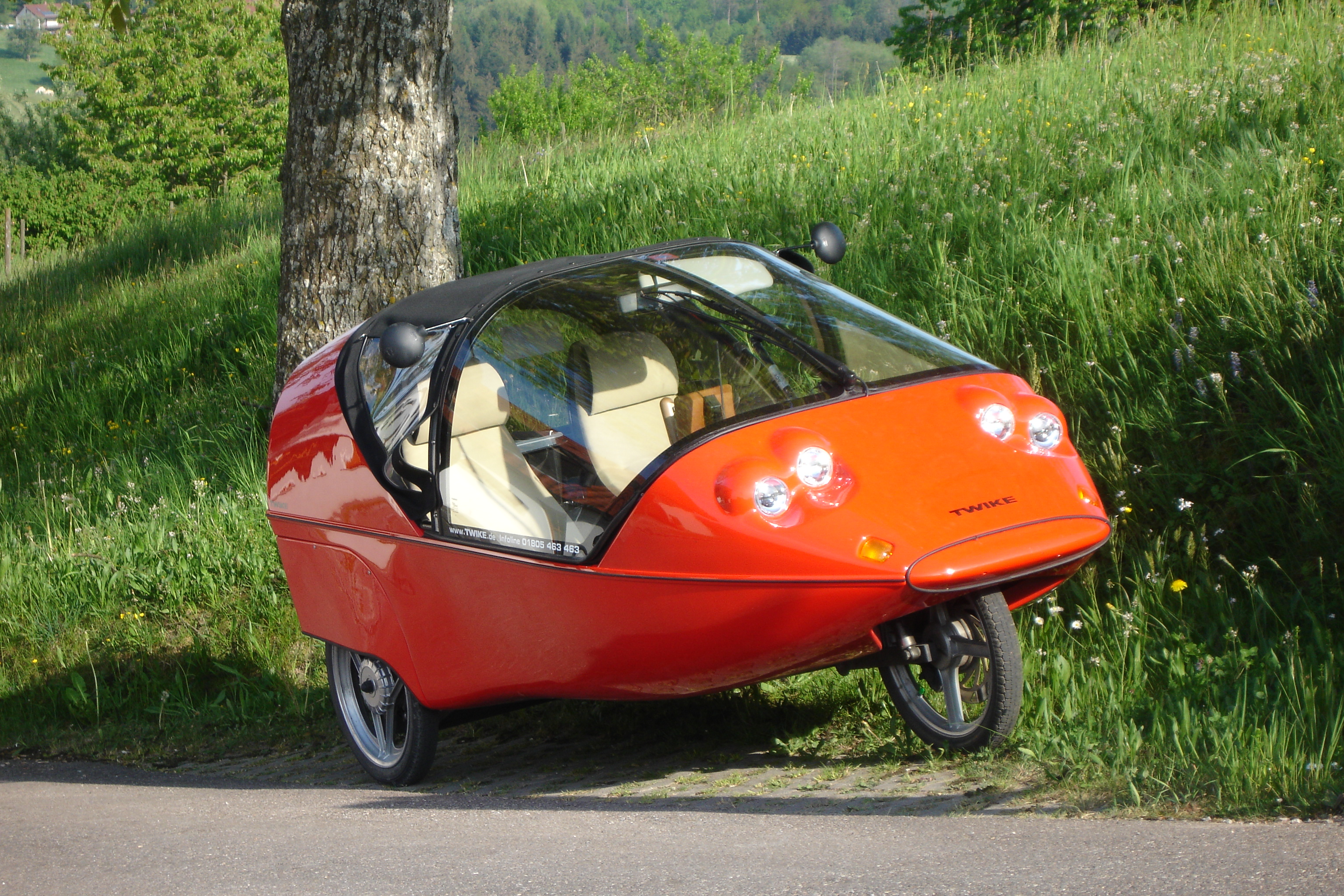 Photo of my Twike Active in early summer 2007, not edited